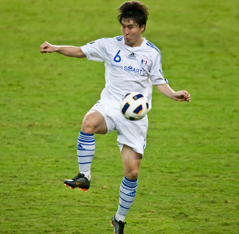 Lee Yong-Rae playing for Suwon Bluewings in the 2011 Asian Champions League against Sydney FC in Sydney, Australia.